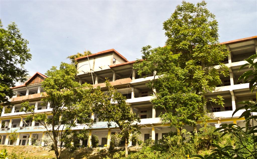 Science & Commerce Block of Govt. College Sujanpur-Tihra